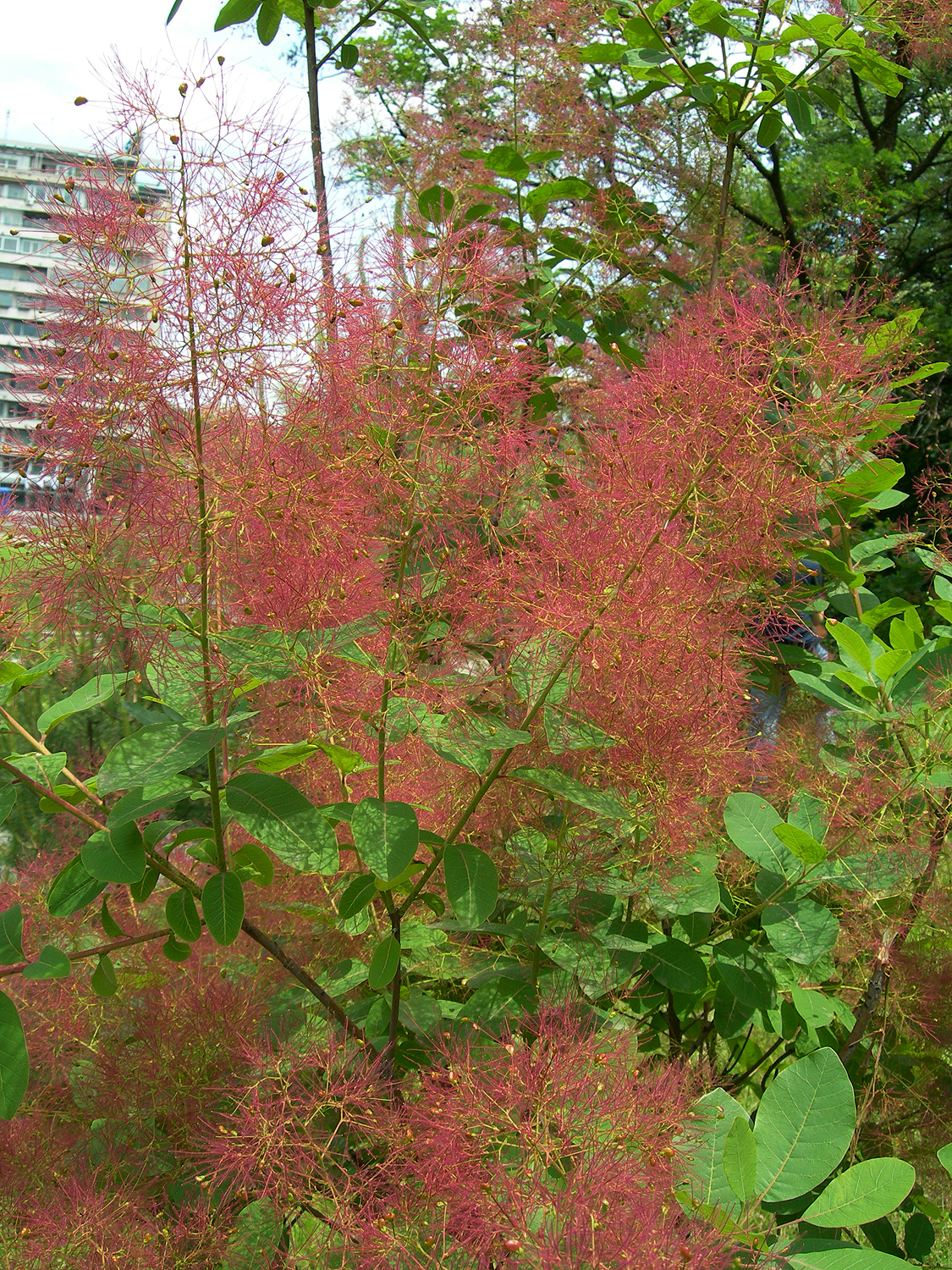 Blossomming smoke tree